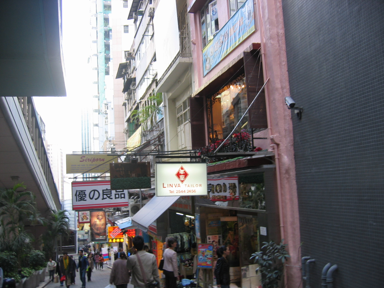 Cochrane Street, Central Mid-levels Hong Kong.